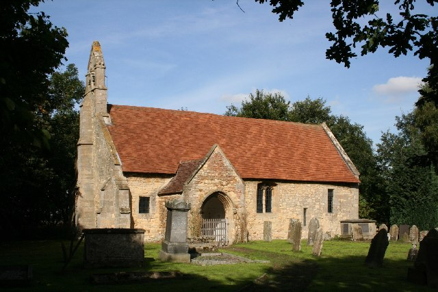 St.Michael's church, Stragglethorpe, Lincs. An ancient church with Anglo-Saxon origins and just about every architectural age thereafter. Inside is a monument from 1697 to Sir Richard Earle, third (and last) Baronet with a quaint rhyming inscription.